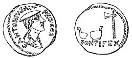 Denarius of the Roman Republic, issued by Gaius Antonius, Son of Marcus, 1st century B.C. (from 43 B.C.), Image, female bust, draped wearing causia Obverse Legend: "C(aius) ANTONIVS M.F. PRO CO(n)S(ule), Reverse Legend "PONTIFEX", Reverse image:Two cululli and axe (